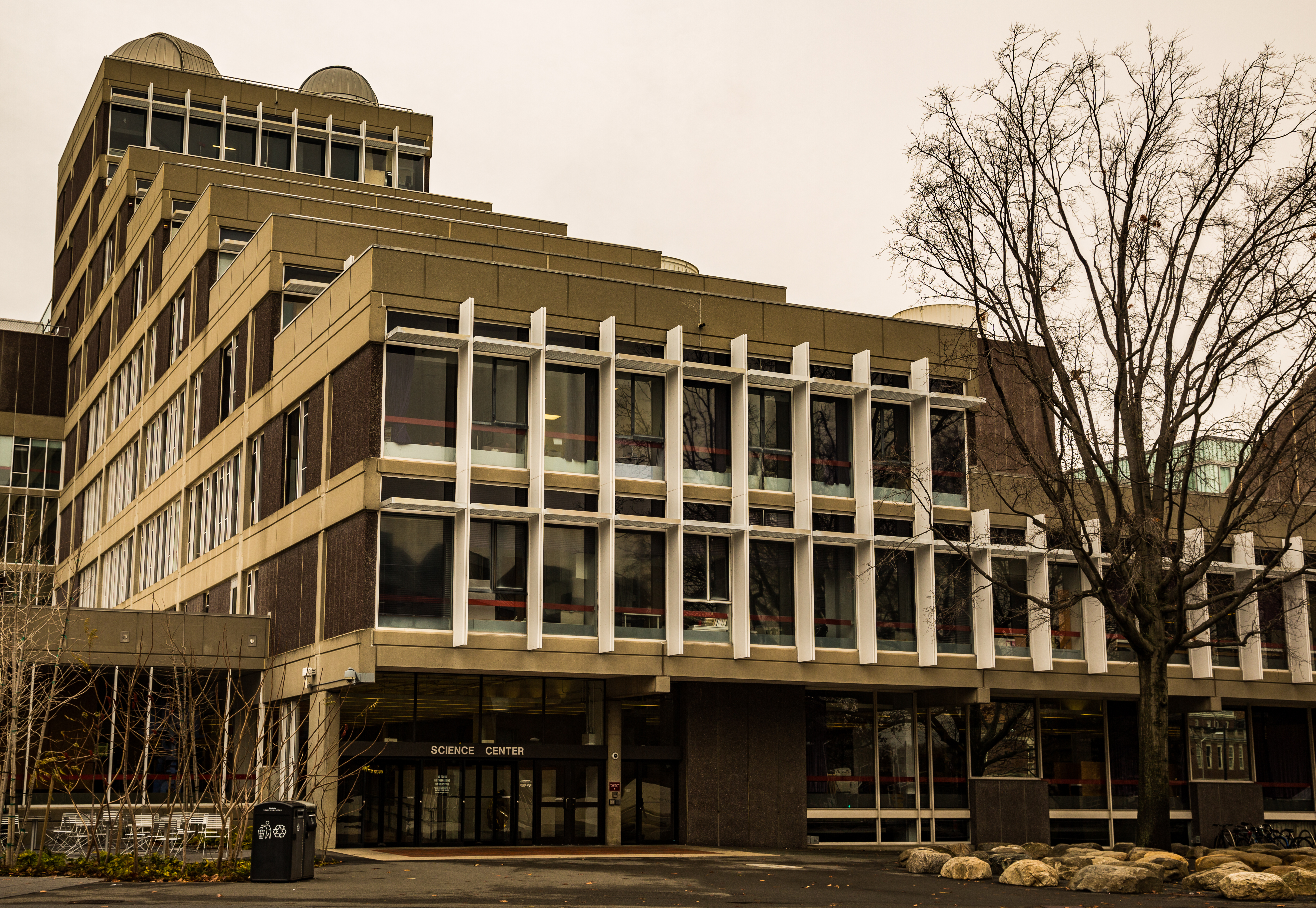 Cambridge, Massachusetts